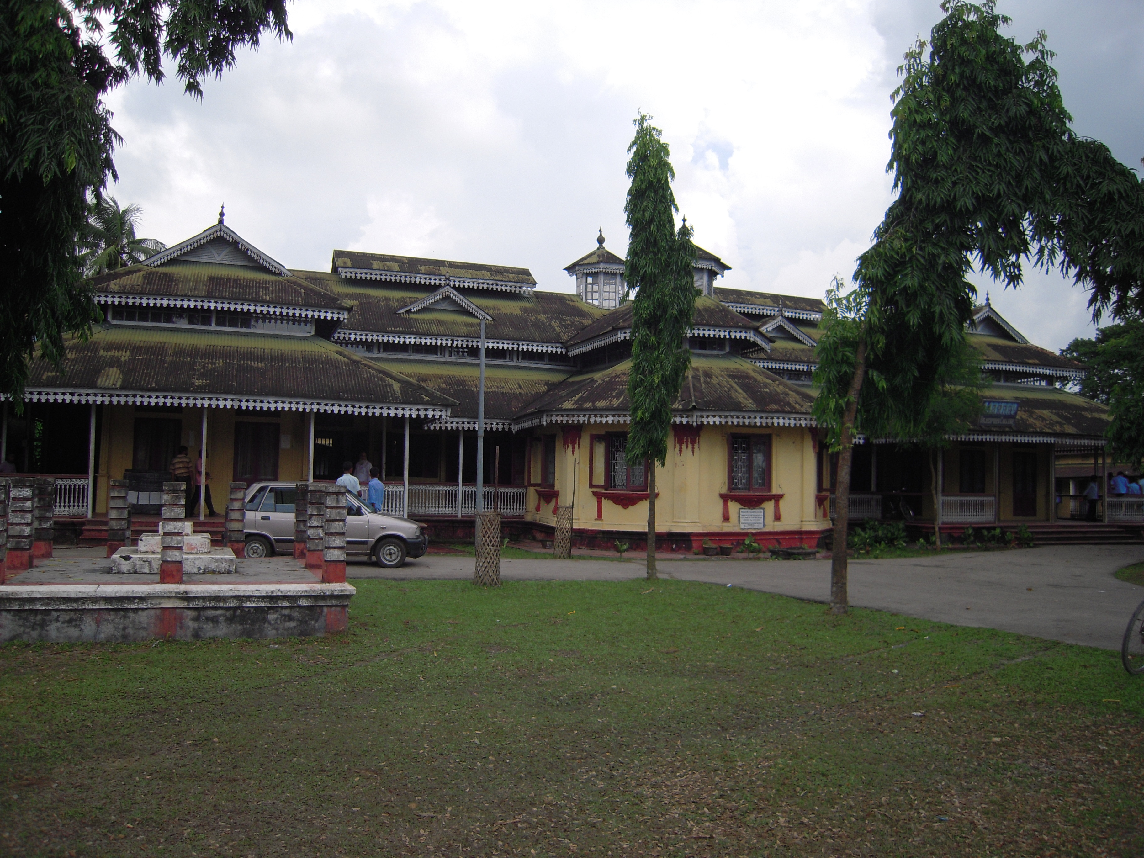 Bilasipara College, administrative building